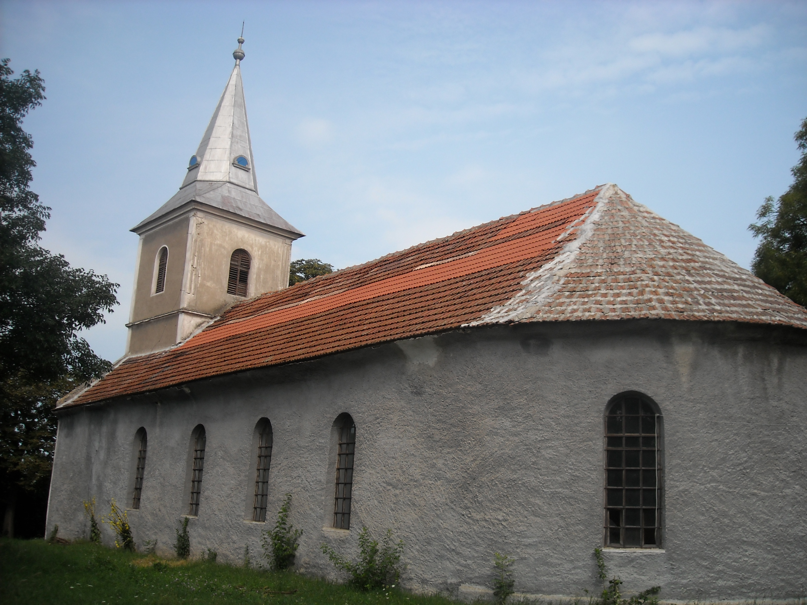 Reformed (Calvinist) church in Turdaş/Tordos